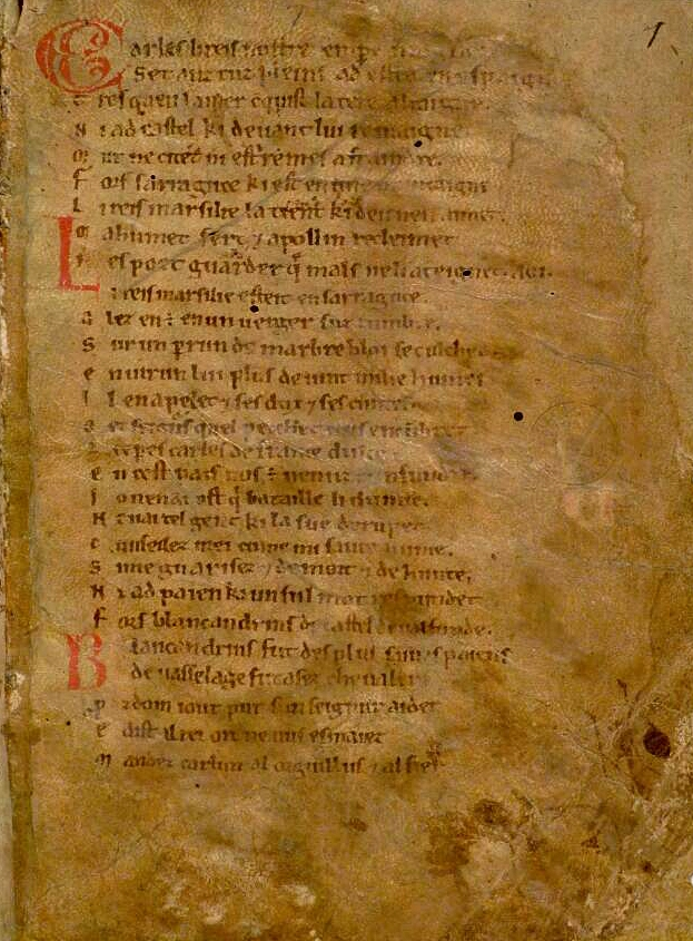 Part 2, La Chanson de Roland, in Anglo-Norman, 12th century, ? 2nd quarter. Part 1 bequeathed, perhaps already bound with Part 2, to Osney Abbey near Oxford by Master Henry of Langley, d. 1263(?).; 1r